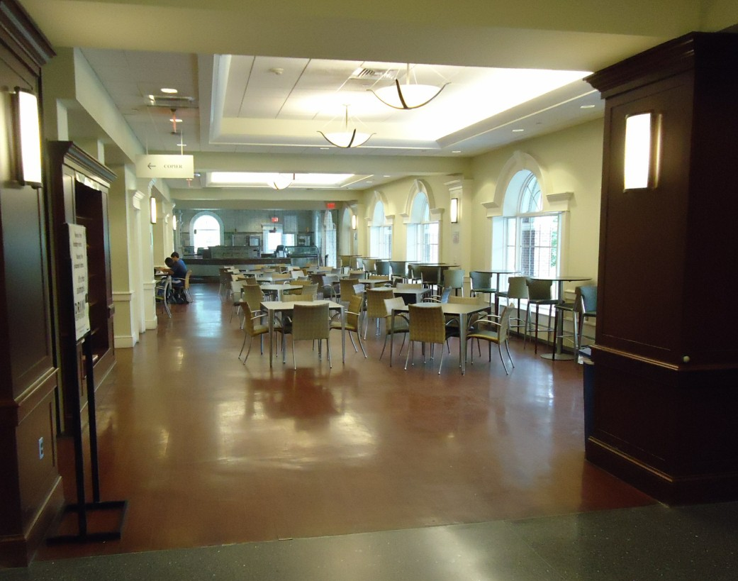 Library area. Campus view of The College of New Jersey or TCNJ, in Ewing, New Jersey.